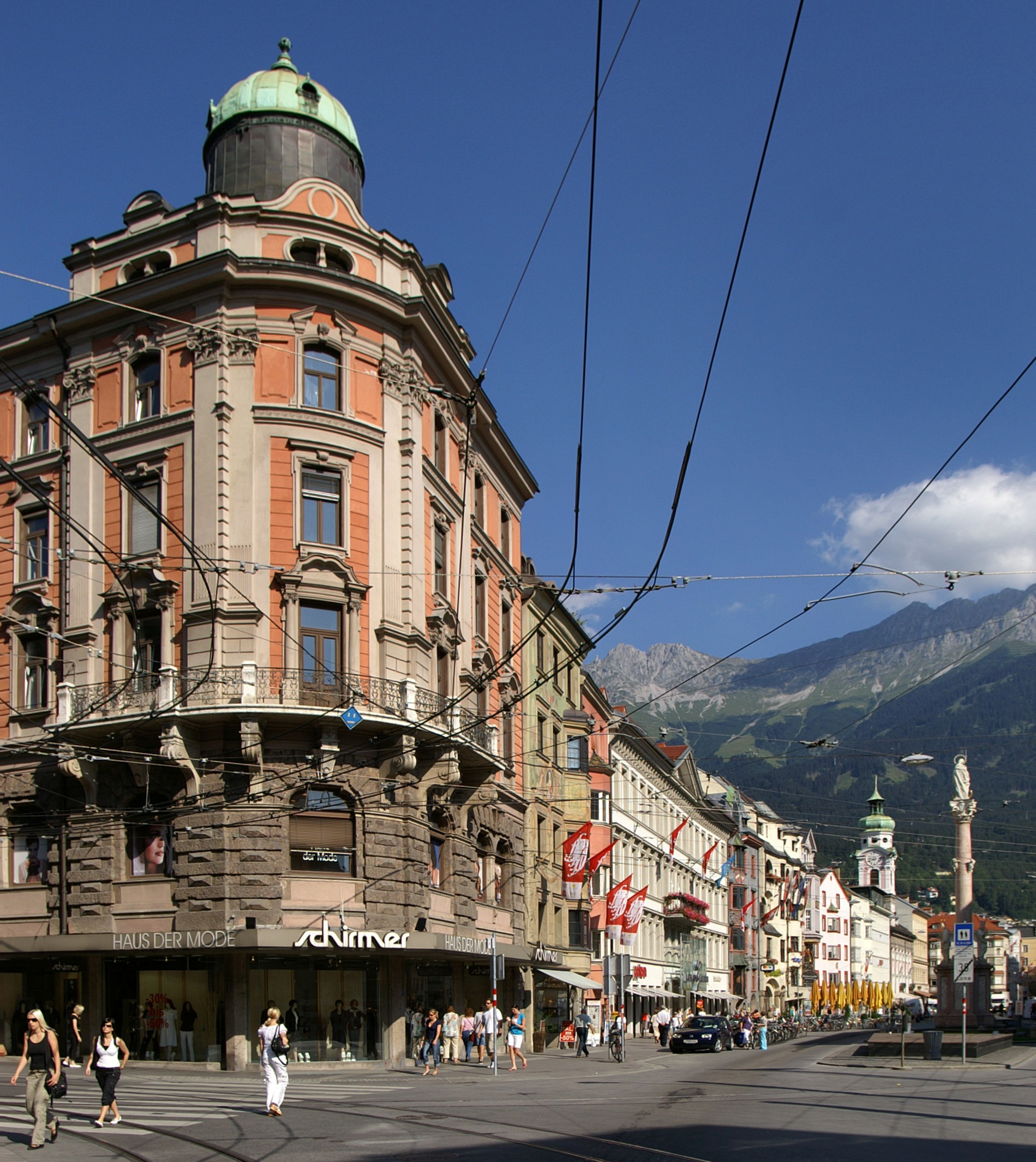 A part of Maria-Theresien-Straße in Innsbruck. This media shows the remarkable cultural object in the Austrian state of Tyrol listed by the Tyrolean Art Cadastre with the ID 116125. (on tirisMaps, pdf, more images on Commons, Wikidata) This media shows the remarkable cultural object in the Austrian state of Tyrol listed by the Tyrolean Art Cadastre with the ID 83283. (on tirisMaps, pdf, more images on Commons, Wikidata)